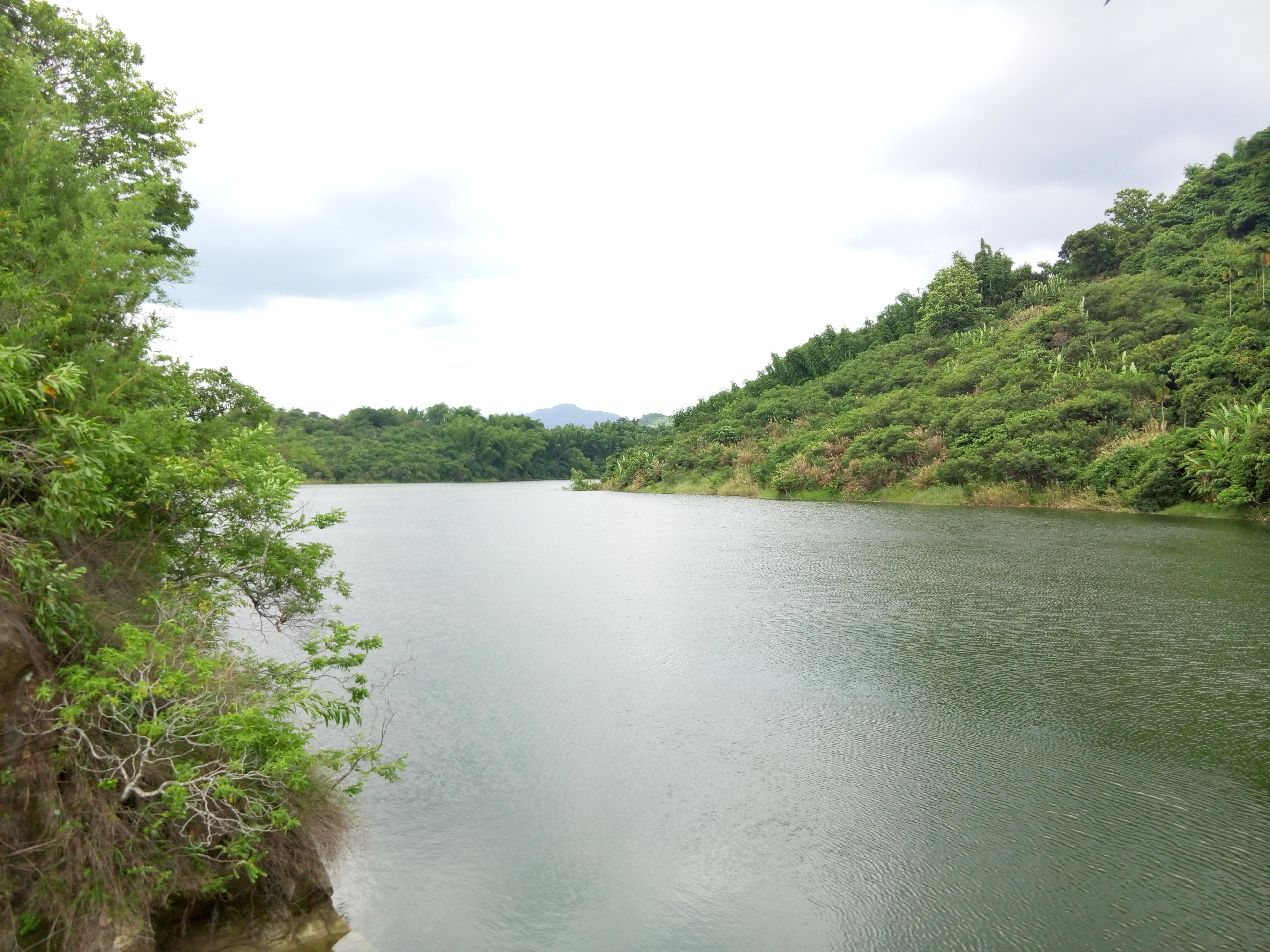 Taiwan(R.O.C)Tainan City Nanhua District Jingmian Reservoir Lake